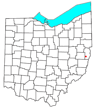 Locator map of the unincorporated community of Piney Fork in Jefferson County, Ohio, United States.